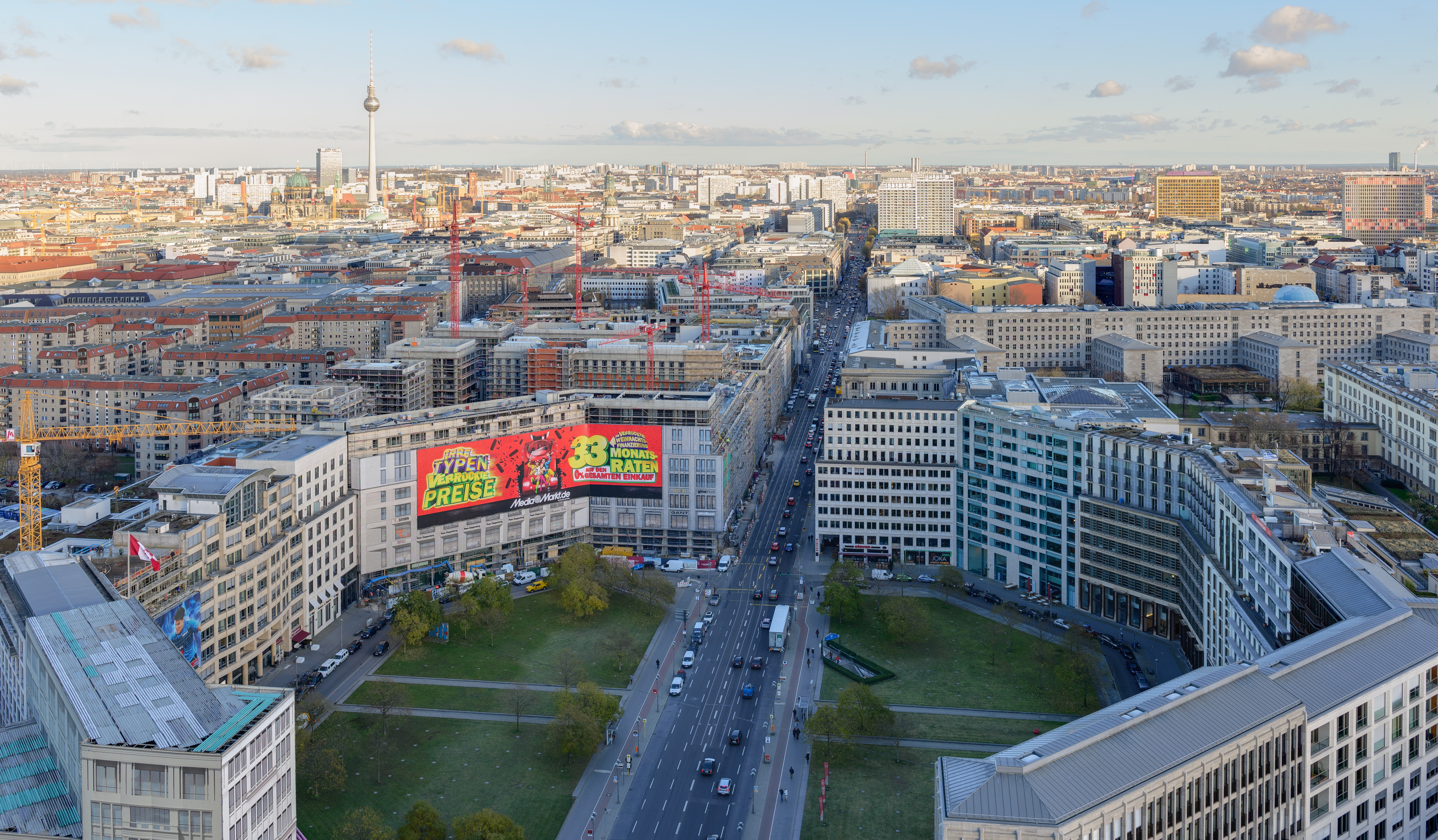 East view of Leipziger Platz and Leipziger Straße from Kollhoff-Tower.